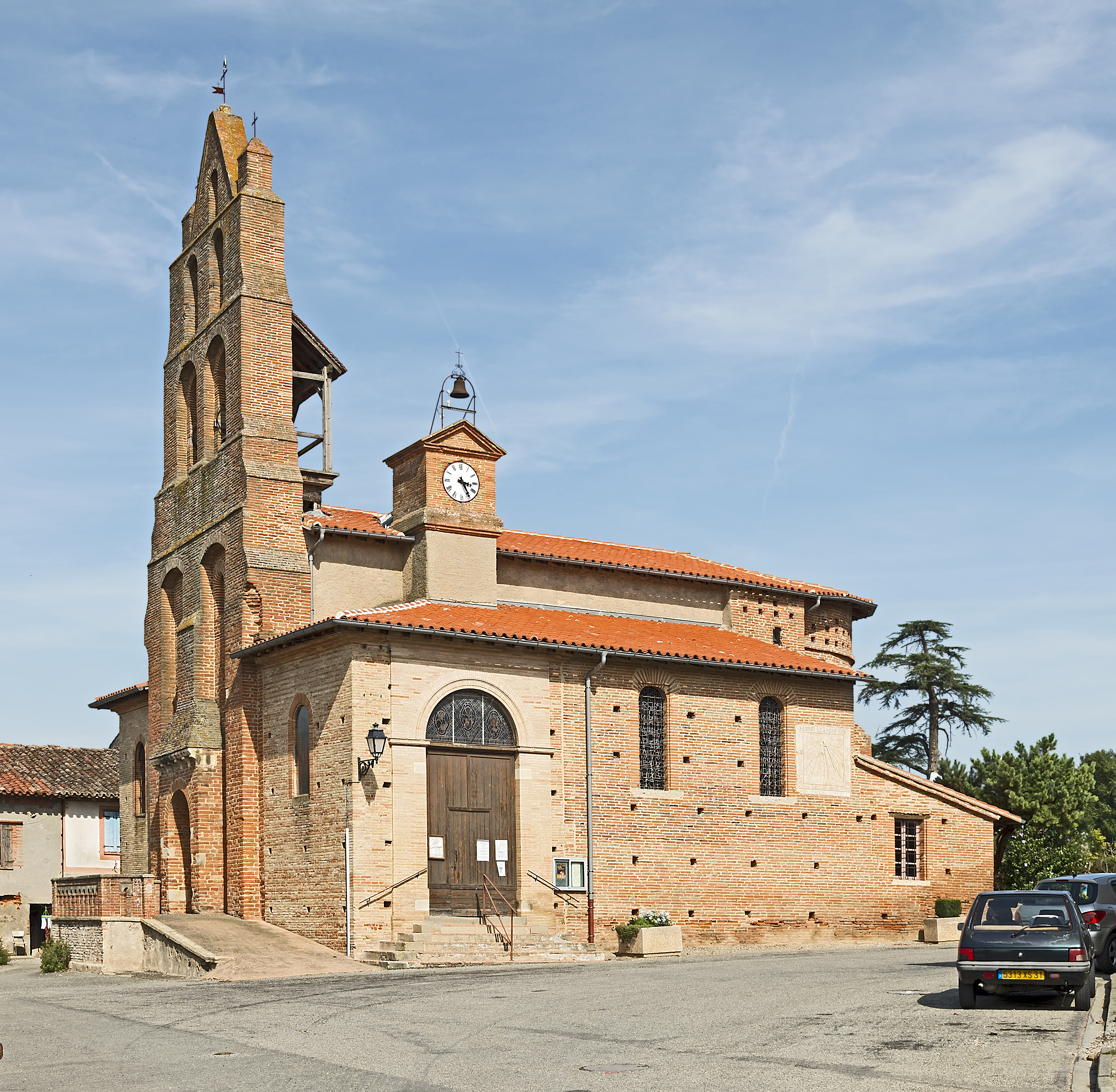 Saint-Sauveur, Haute-Garonne. Church of the Holy Saviour.